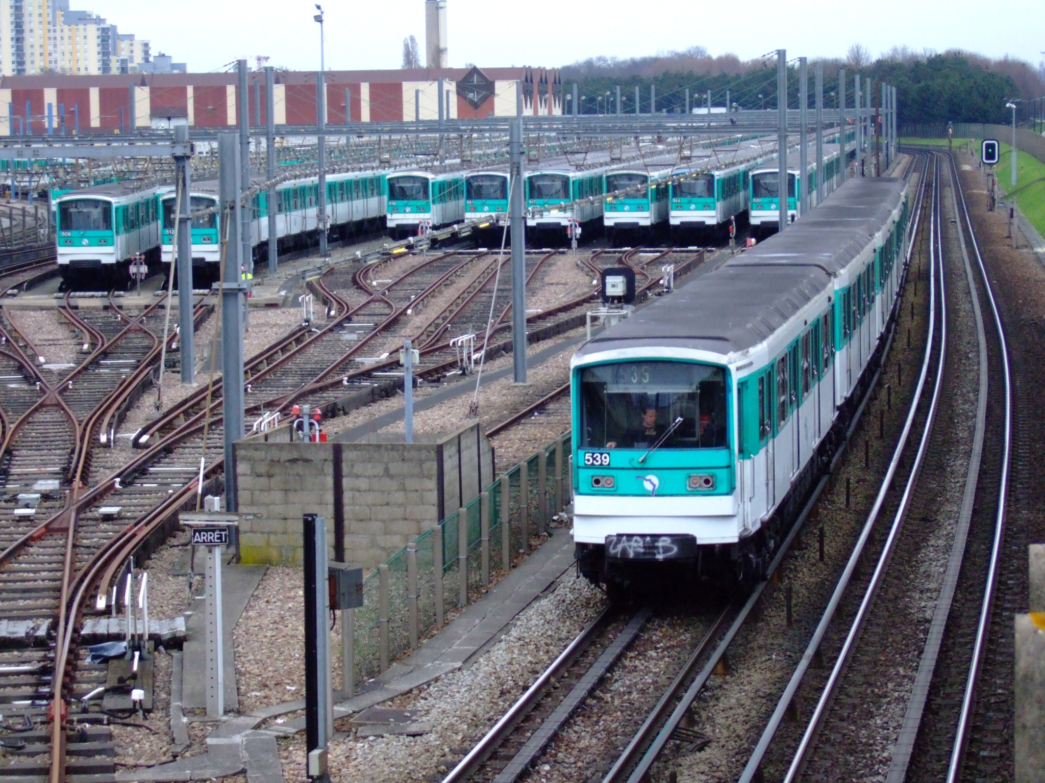 Subway of Paris. Line 5. Bobigny yard. Metro Type MF67